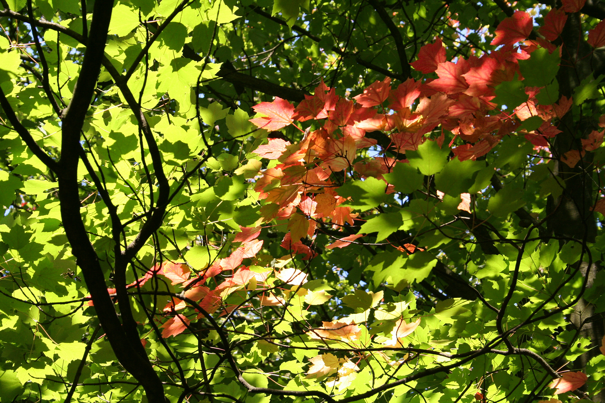 Red Maple